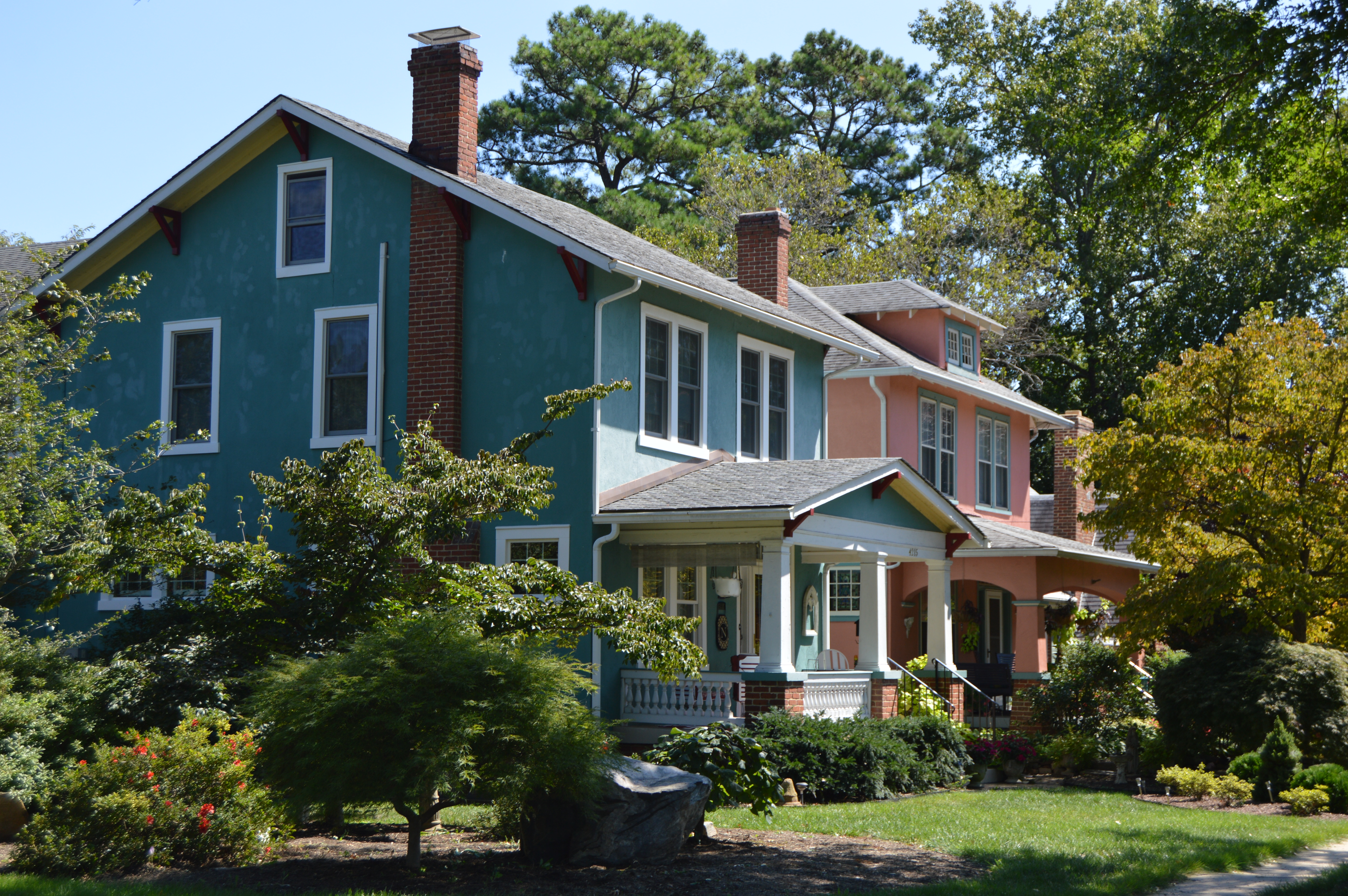 Houses on the northern side of Springhill Avenue at the 43rd Street intersection in Richmond, Virginia, United States. They are part of the Forest Hill Historic District, a historic district that is listed on the National Register of Historic Places.